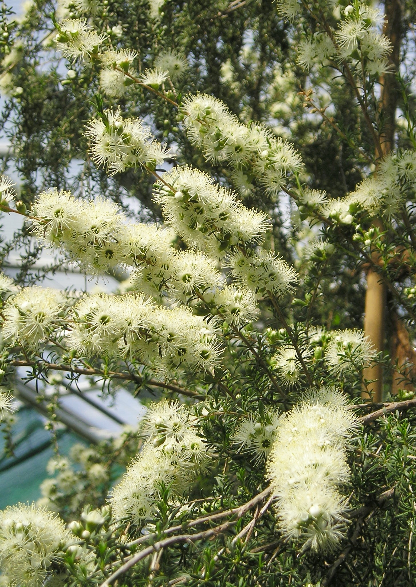 Kānuka-Baum (Kunzea aff. ambigua) Botanischer Garten TU Dresden, April 2009 Creative Commons Licence BY 2.0 Quellenangabe / Credit: Photo by Maja Dumat